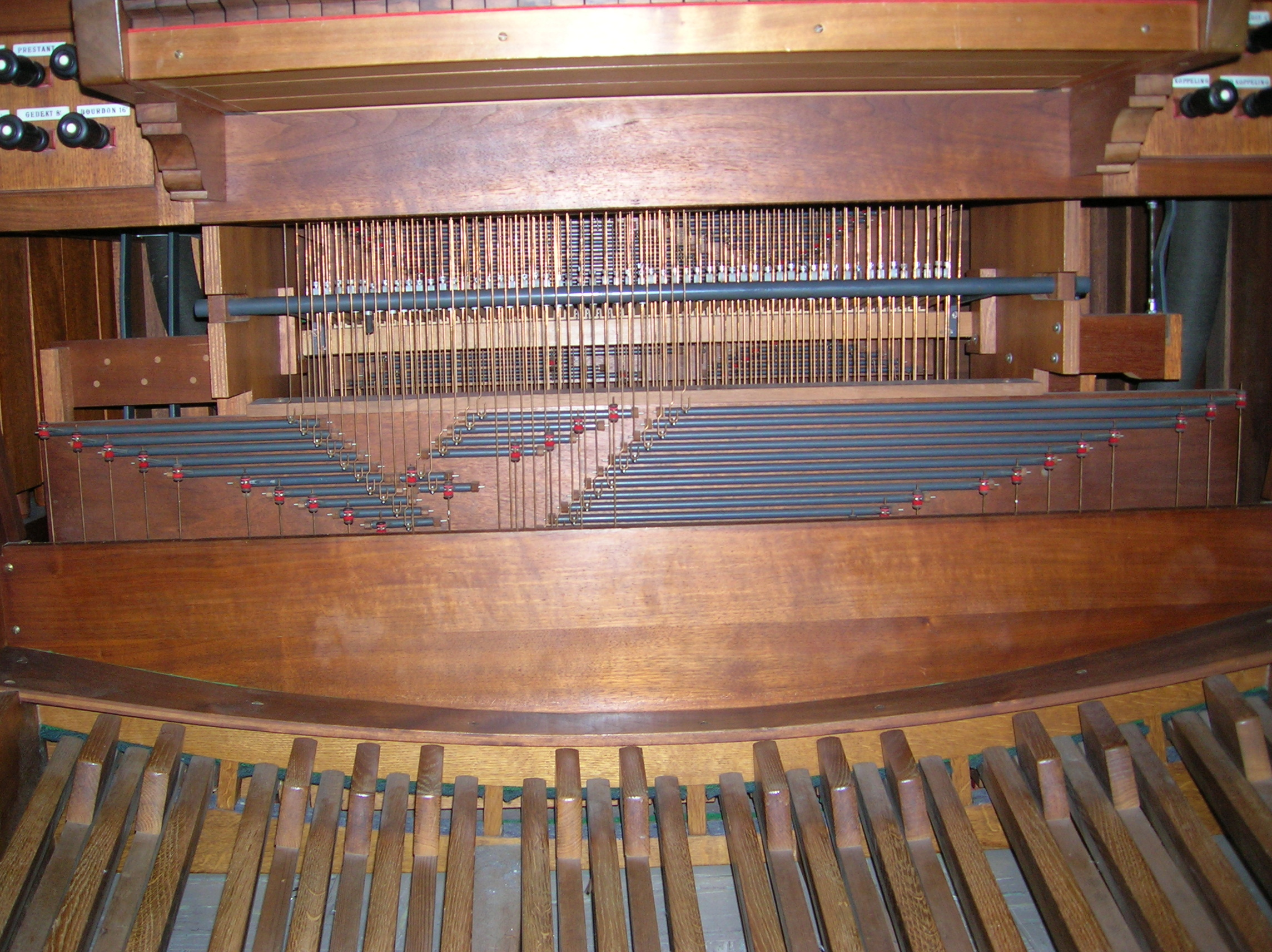 Self made (photo taken by myself)